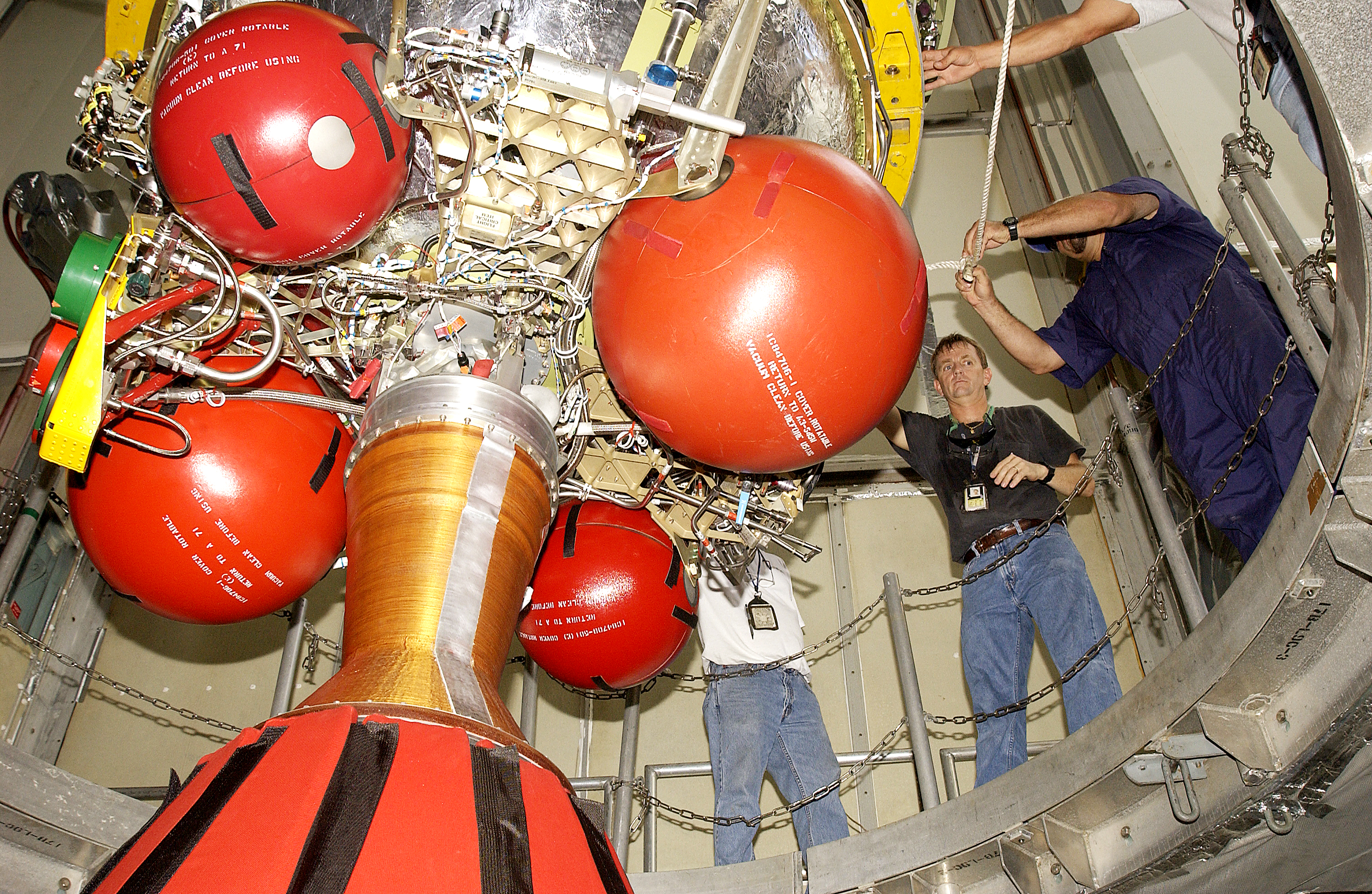 The second stage of SIRTF's Delta II rocket is moved into position atop the first stage on Cape Canaveral Air Force Station's pad 17-B.